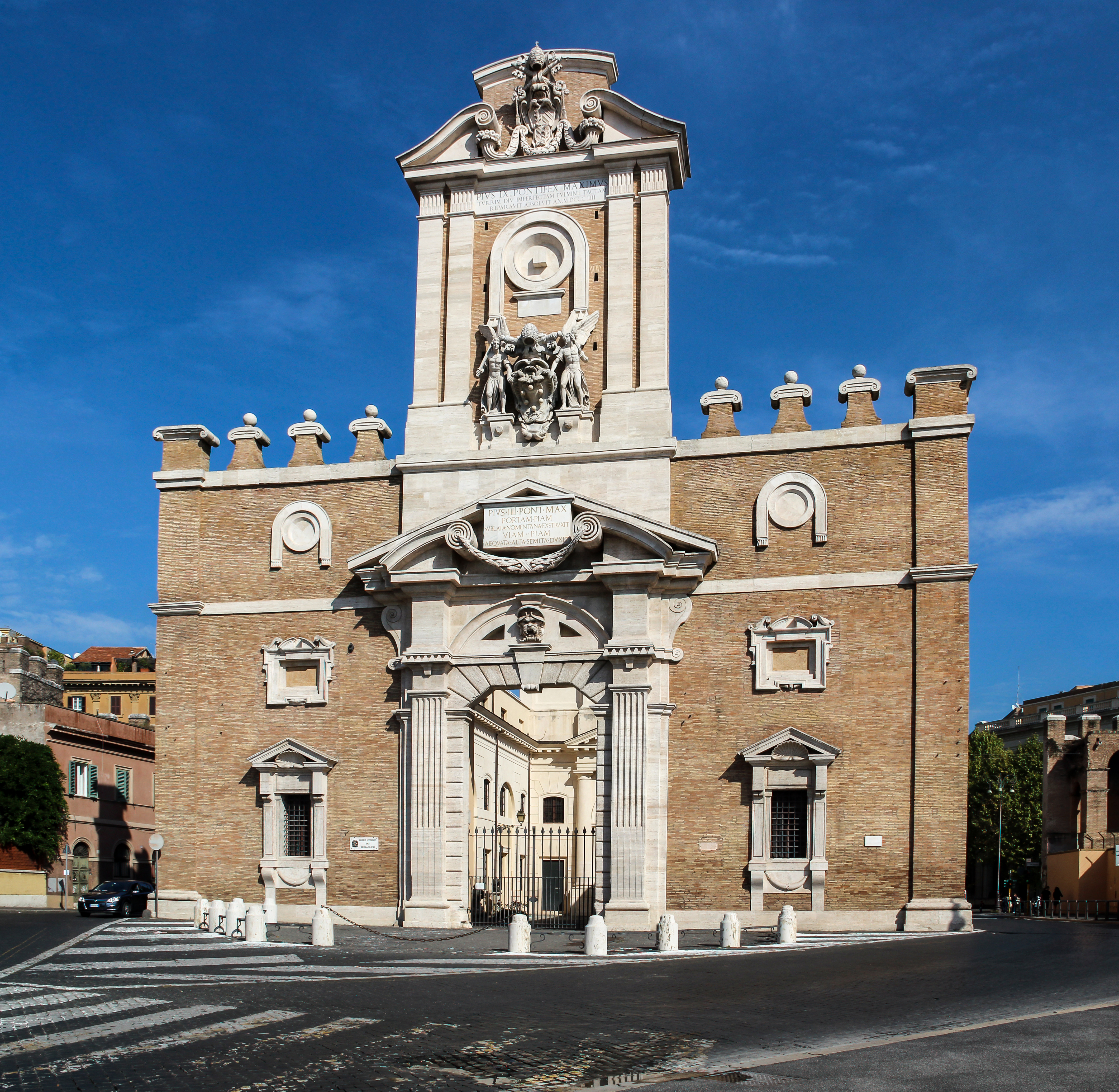 Porta Pia, Rome, Italy